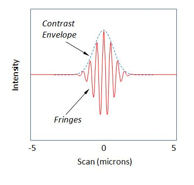 Example CSI signal for a single camera pixel, to illustrate the typical data acquisition result.